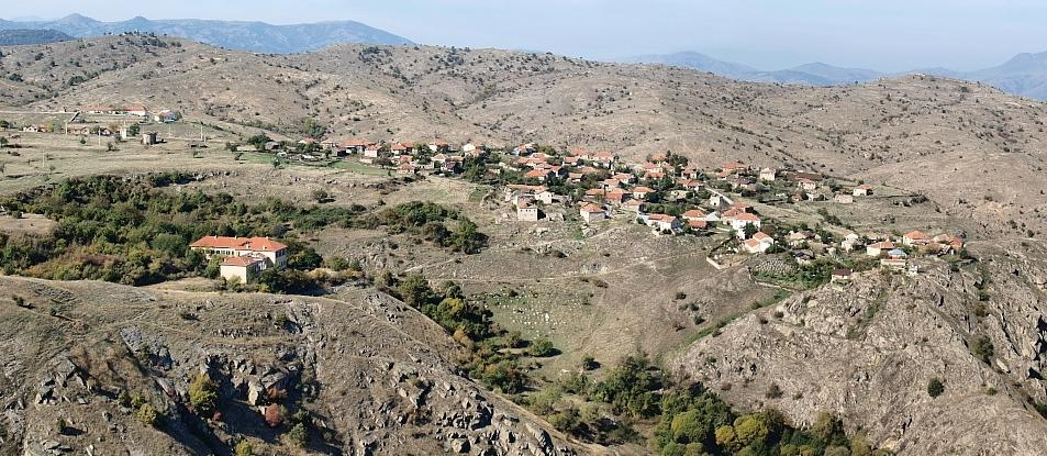 Staravina, Republic of Маcedonia.